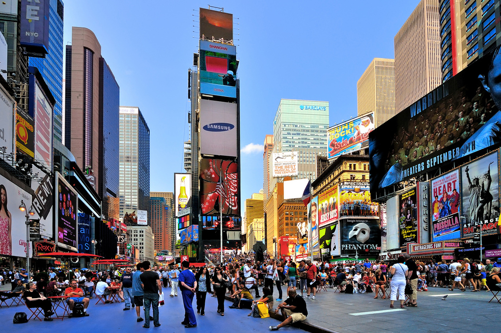 timesq.